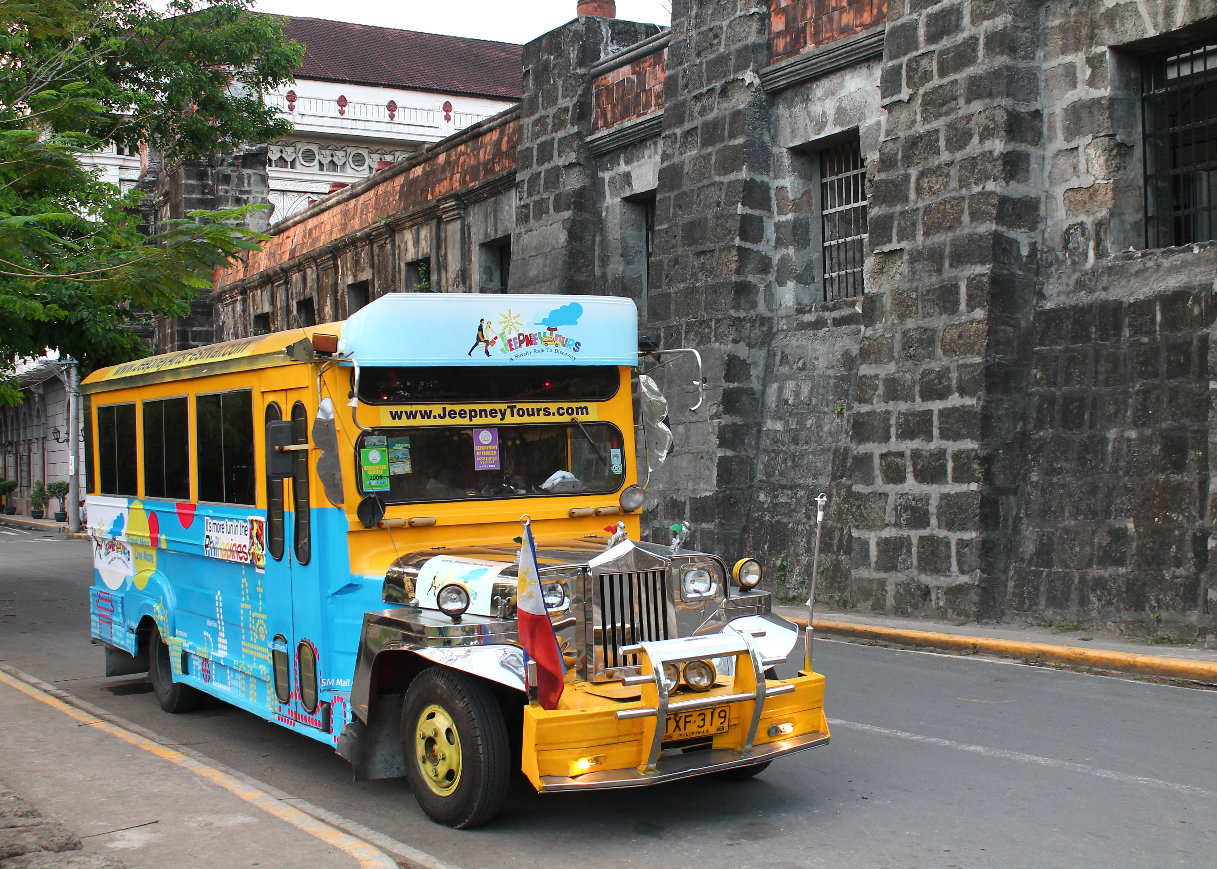 Manila